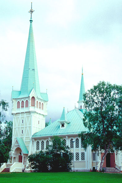 Jokkmokks kyrka, (Sweden)